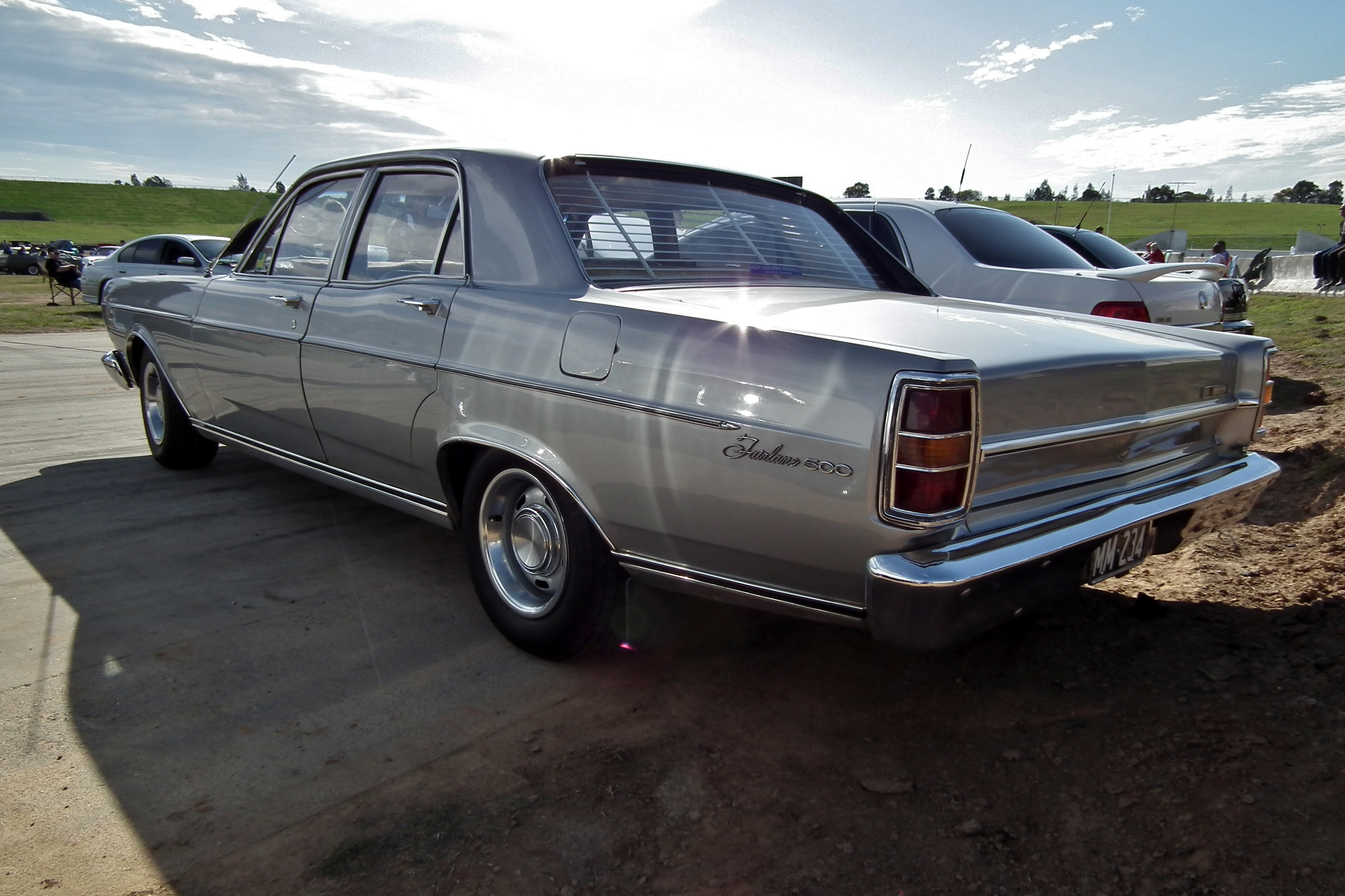 1970 Ford ZC Fairlane 500 sedan. Taken at the 2011 New South Wales All Ford Day, held at Eastern Creek Raceway.